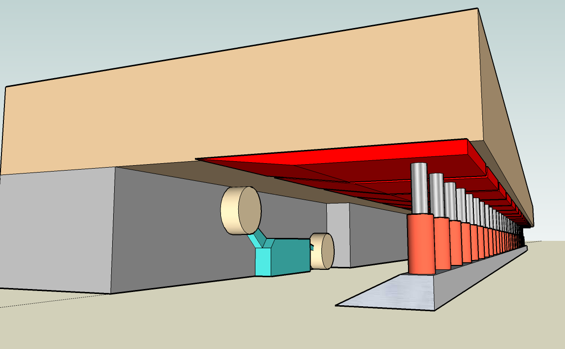 Longwall